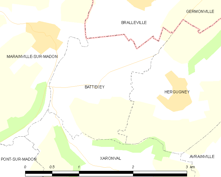 Map of French municipality Battexey